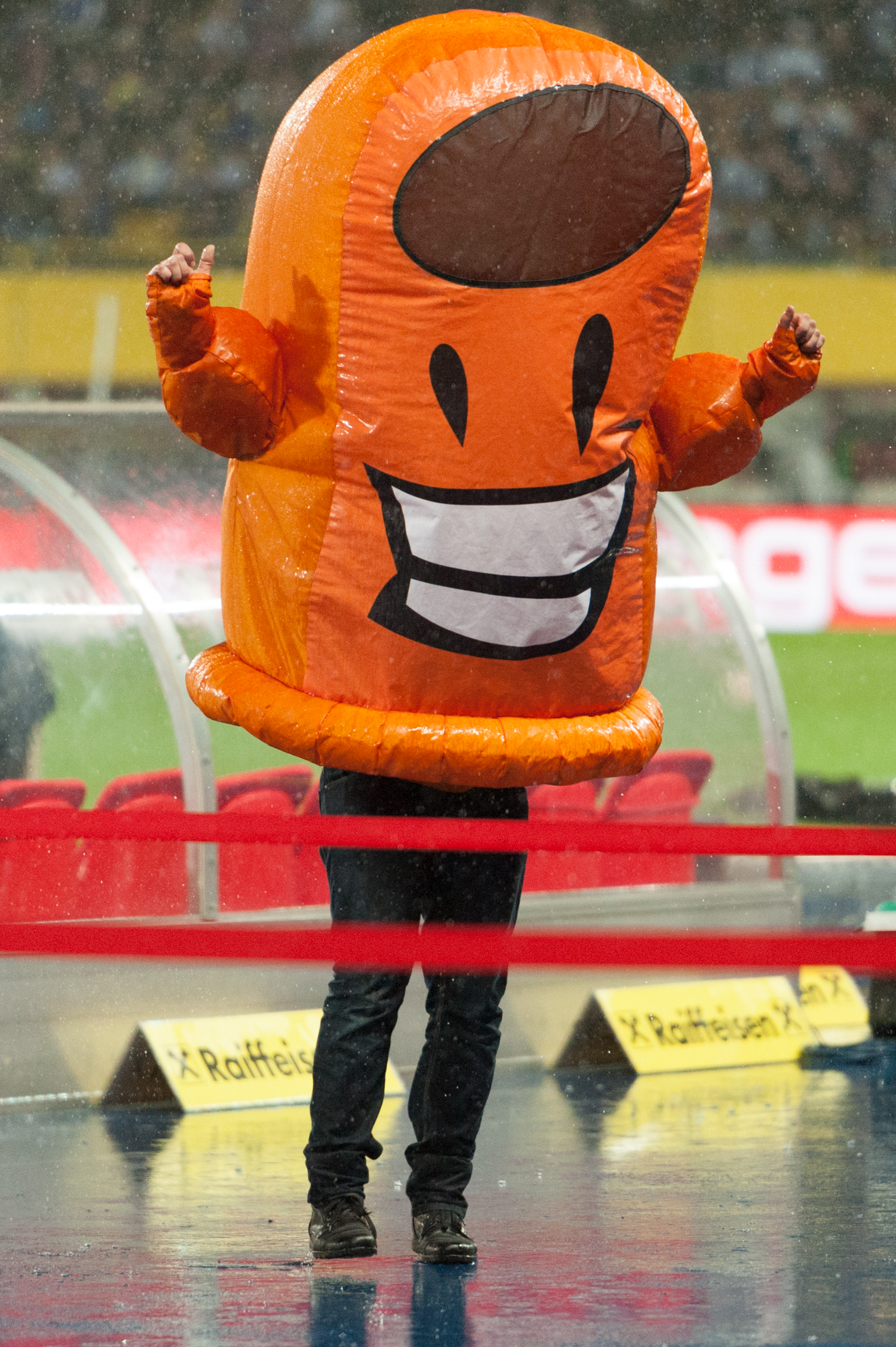 International friendly Austria vs. Bosnia and Herzegovina, 2015-03-31, Vienna